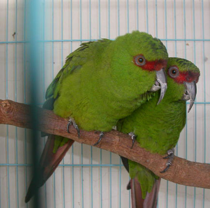 Slender-billed Parakeet (also known as the Slender-billed Conure). Two captive.